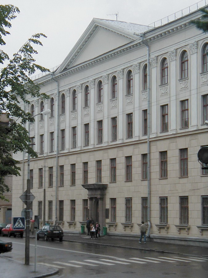 Faculty of History of Belarusian State University. Built in 1906, partially rebuilt in late 1940s.